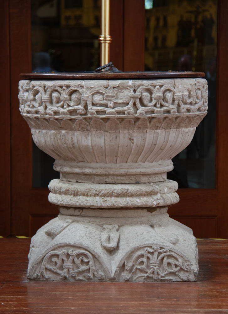 St Mary, Aylesbury - Font